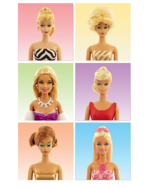 This is a photograph of all of the barbies in Beau Dunn's photo series, "Plastic", from 2012 to be used on the Beau Dunn Wikipedia page